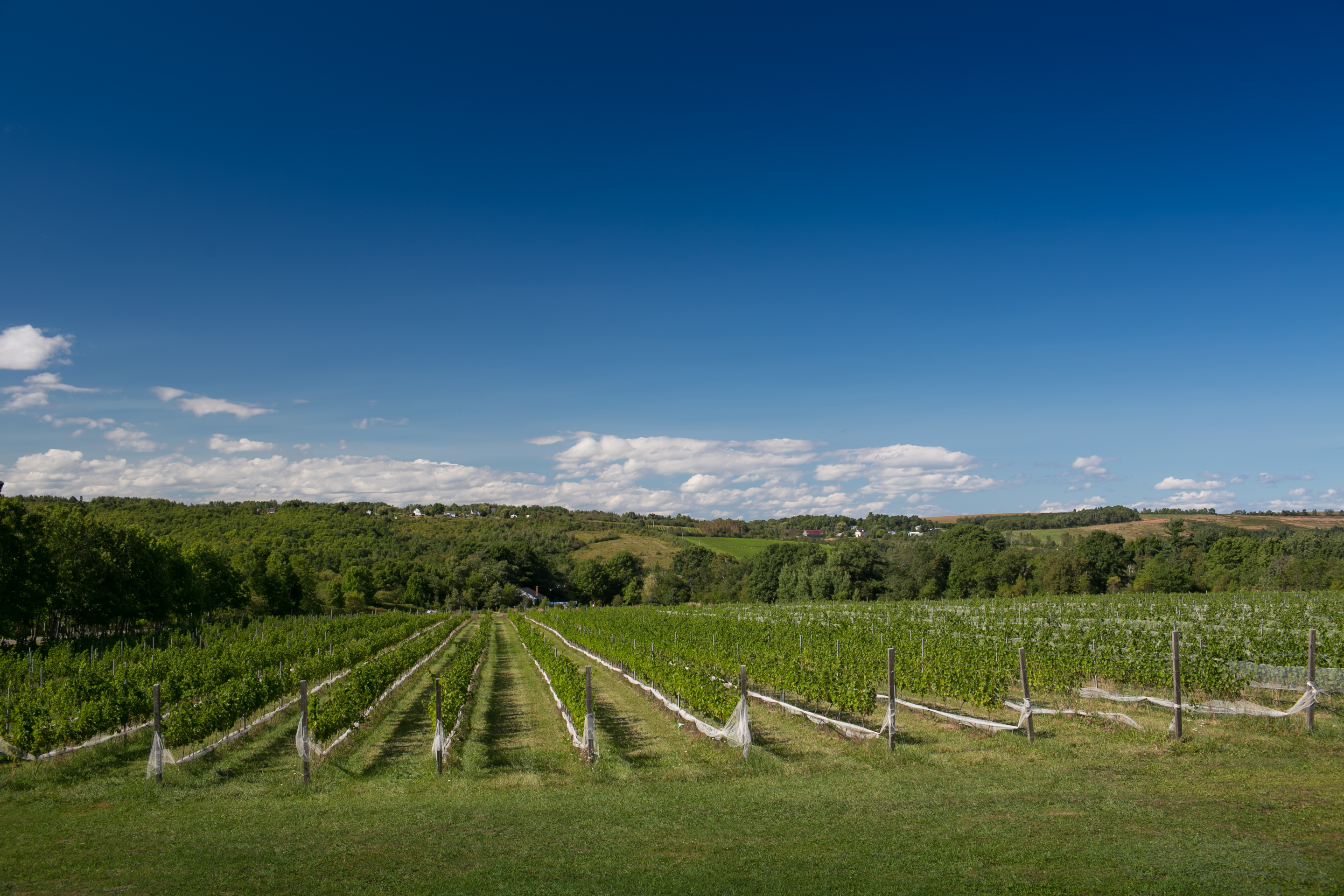 Vineyards in the Canadian wine region of Nova Scotia